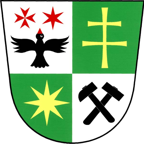 Coat of amrs of Vrančice , District Příbram, Czech Republic